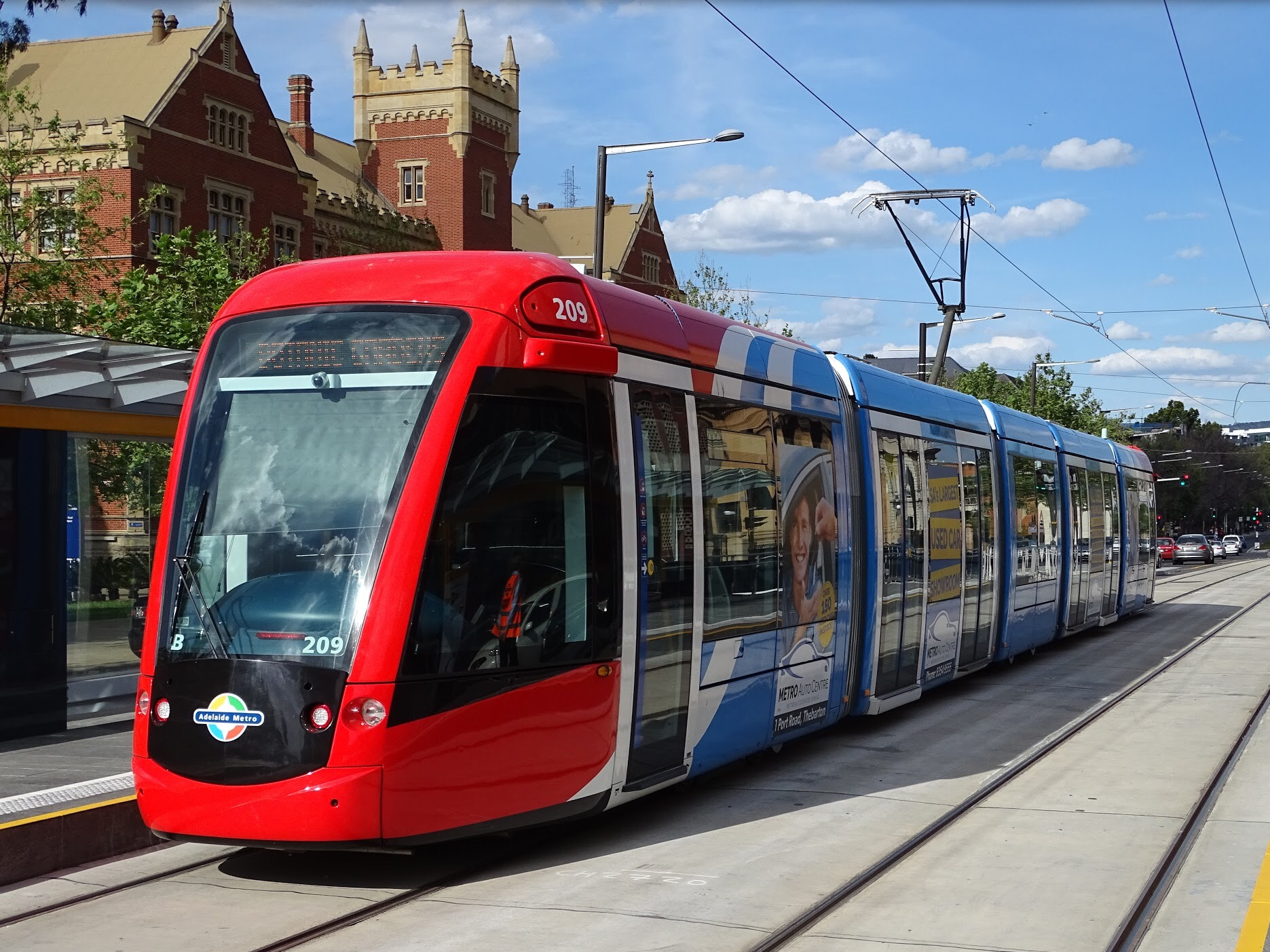 Adelaide Metro Alstom Citadis 209 on North Terrace